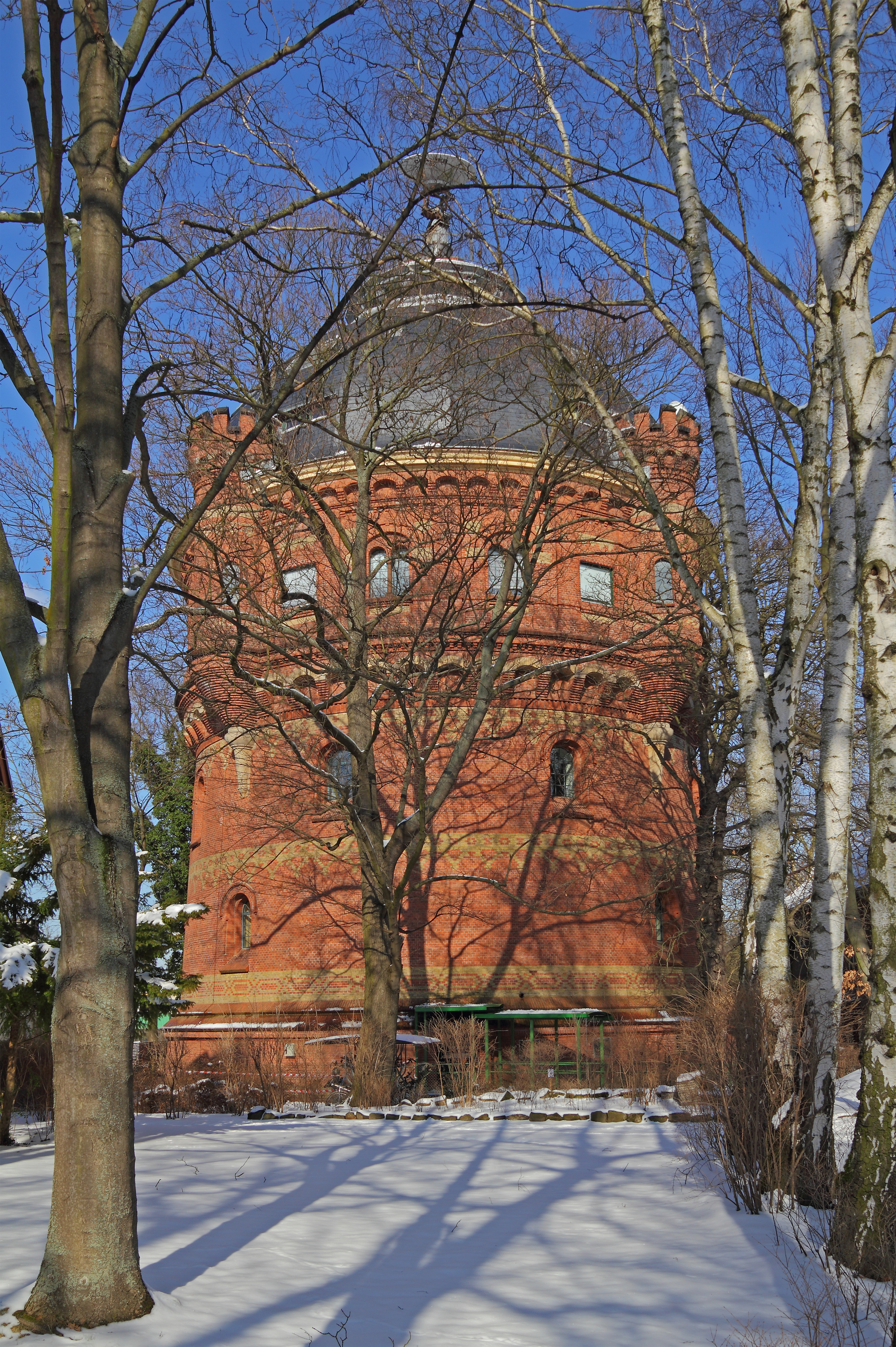 Berlin-Steglitz: water tower at Fichtenberg